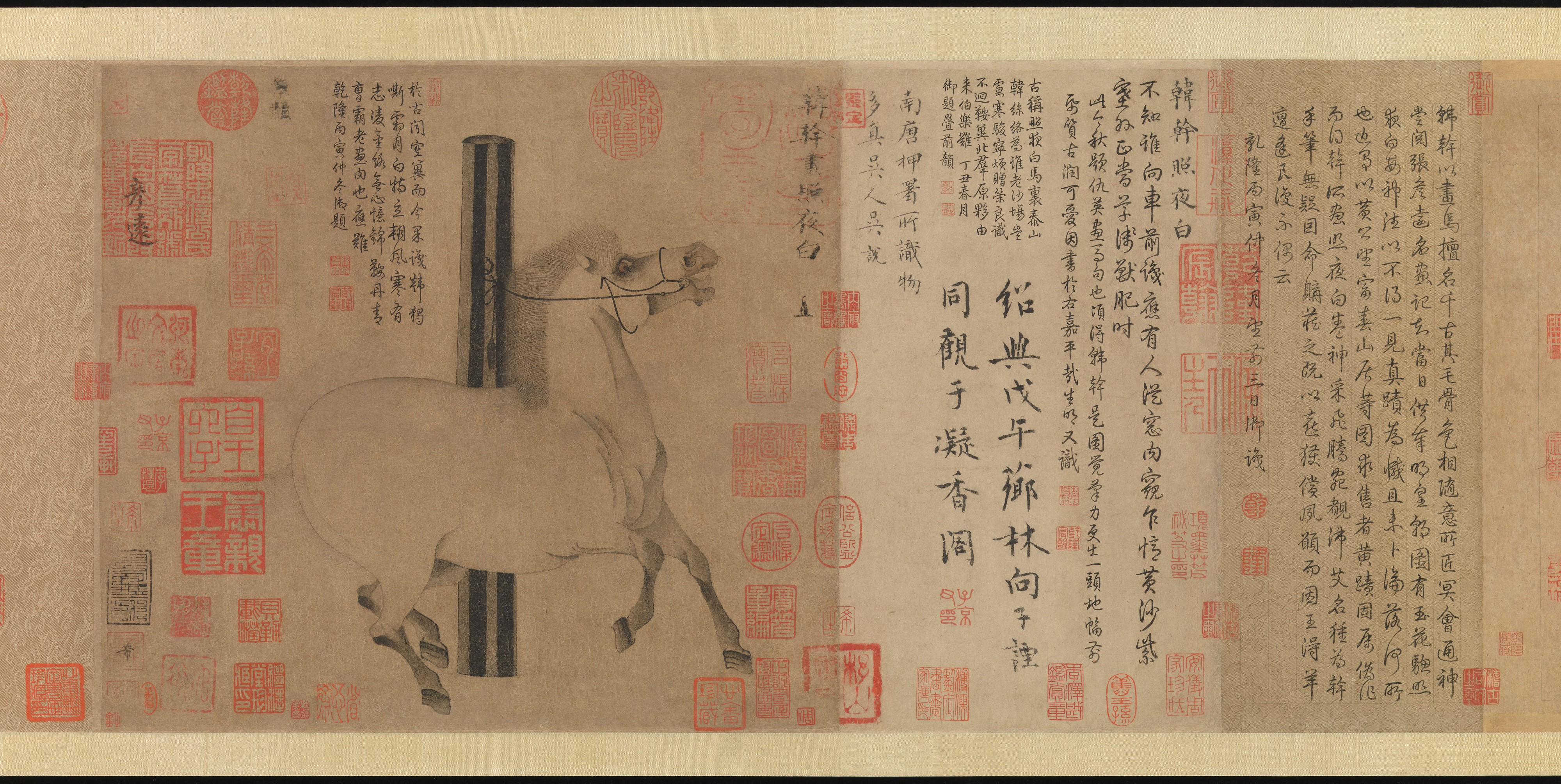 China; Handscroll; Paintings